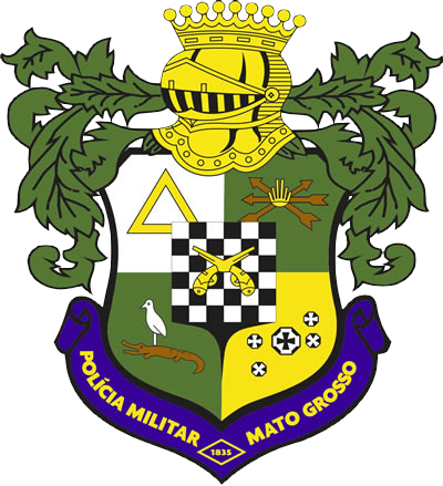 Coat of arms of Military Police - PMMT - Brazil.